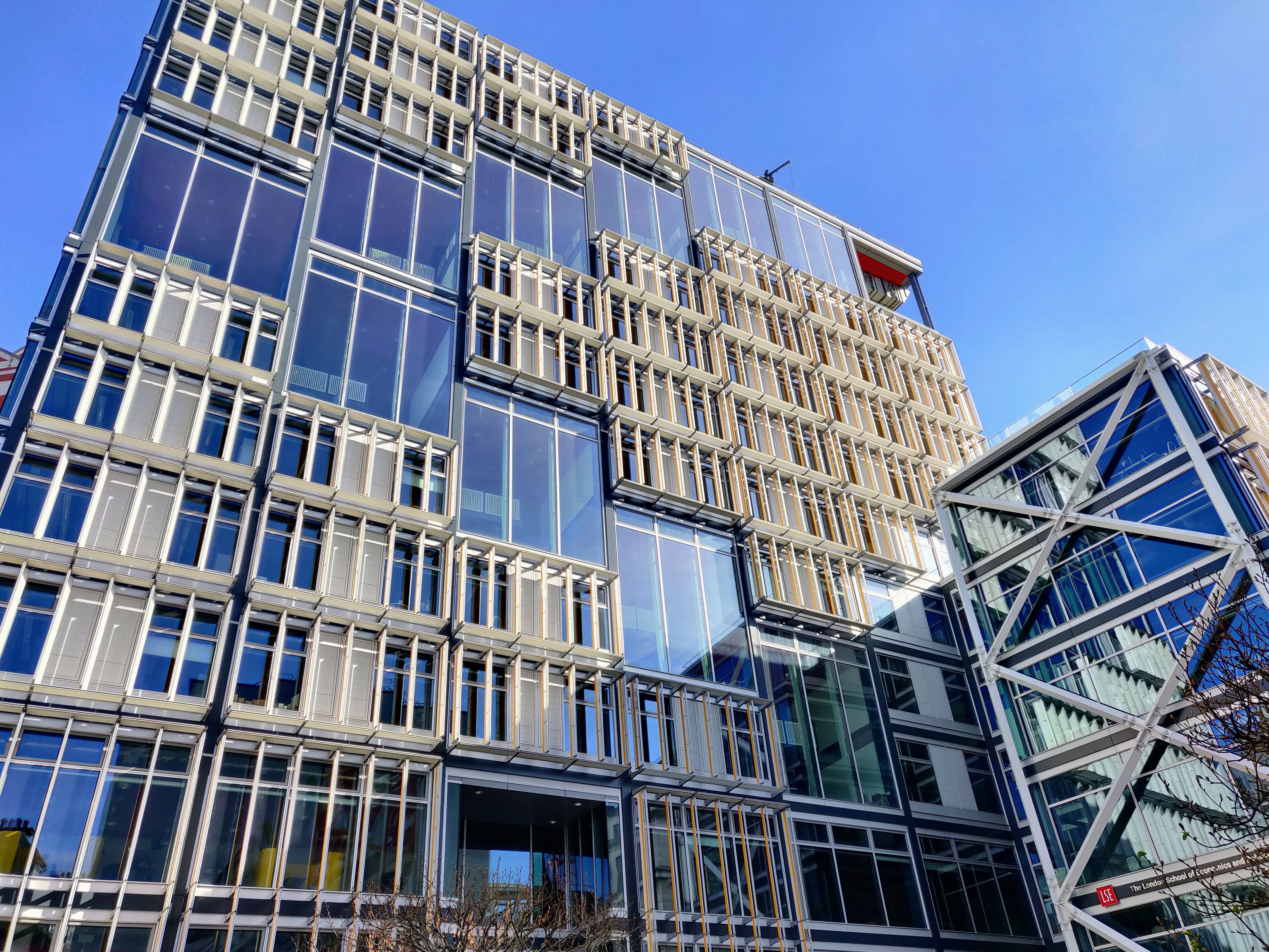 The Centre Building at LSE replaced a ramshackle collection of older buildings which can been accumulated by the school along Houghton Street. The construction also created a moderately sized square in front, currently known as LSE Square.